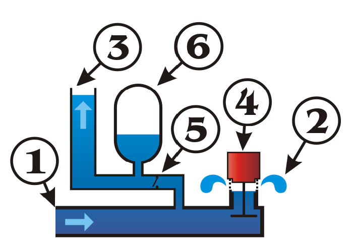 1) Inlet - drive pipe; 2) Free flow at waste valve; 3) Outlet - delivery pipe; 4) Waste valve; 5) Delivery check valve; 6) Pressure vessel (optional).